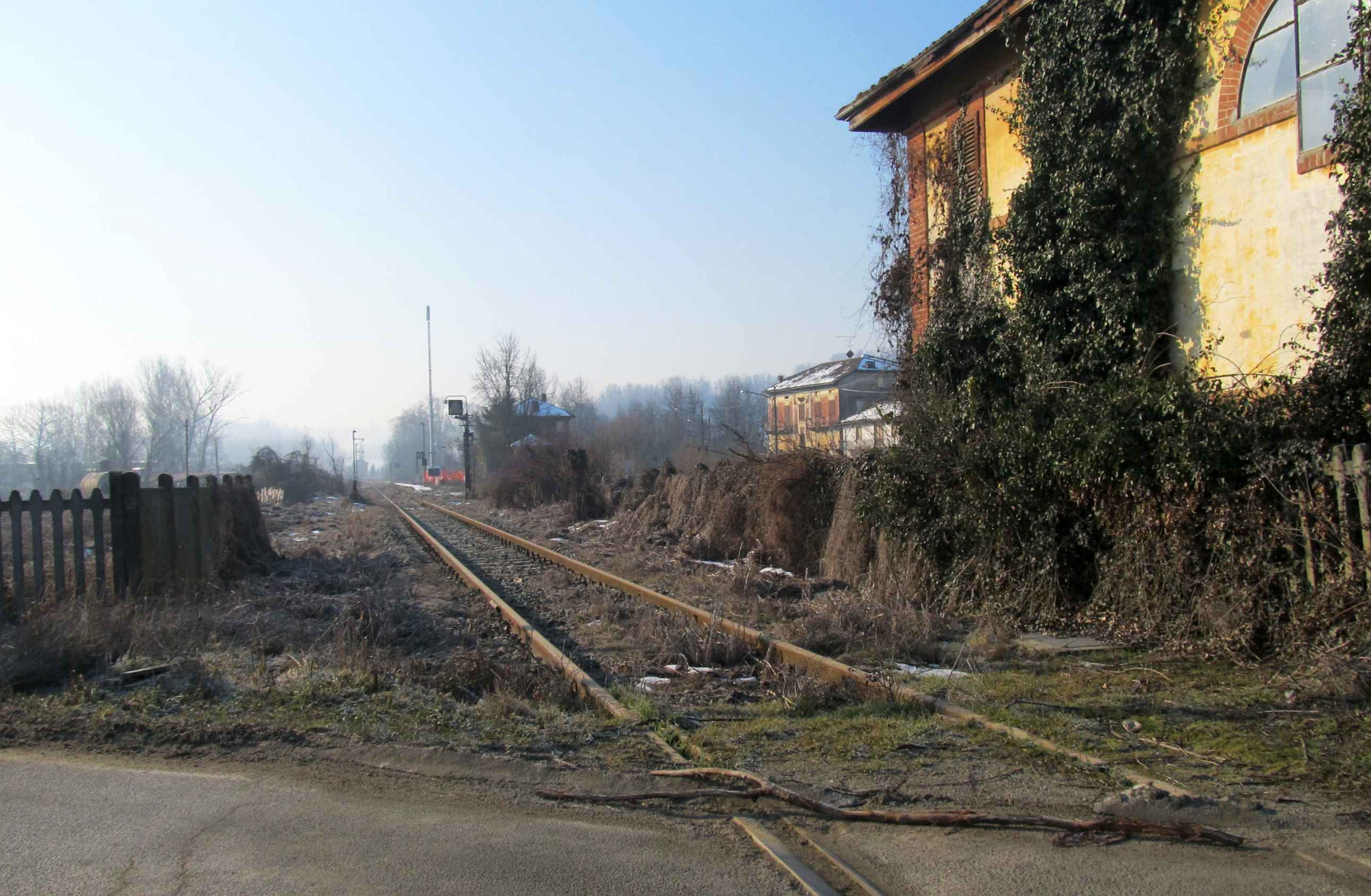 Chivasso–Asti railway in Cunico (winter 2013)